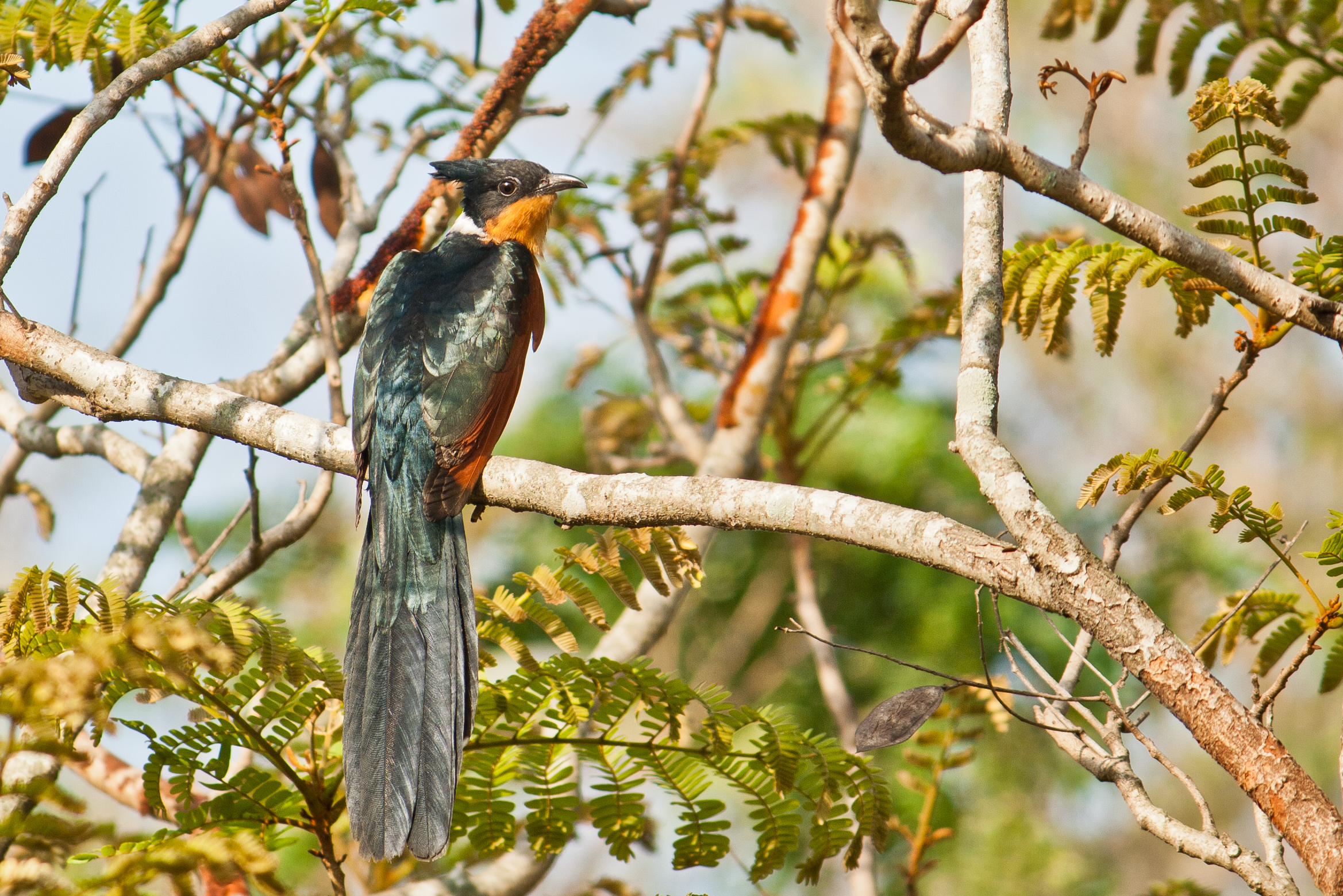 Binomial name : Clamator coromandus Location : Chennai, India Date : Feb 2013